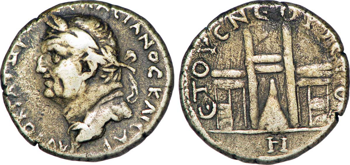 Monnaie frappée à Chypre